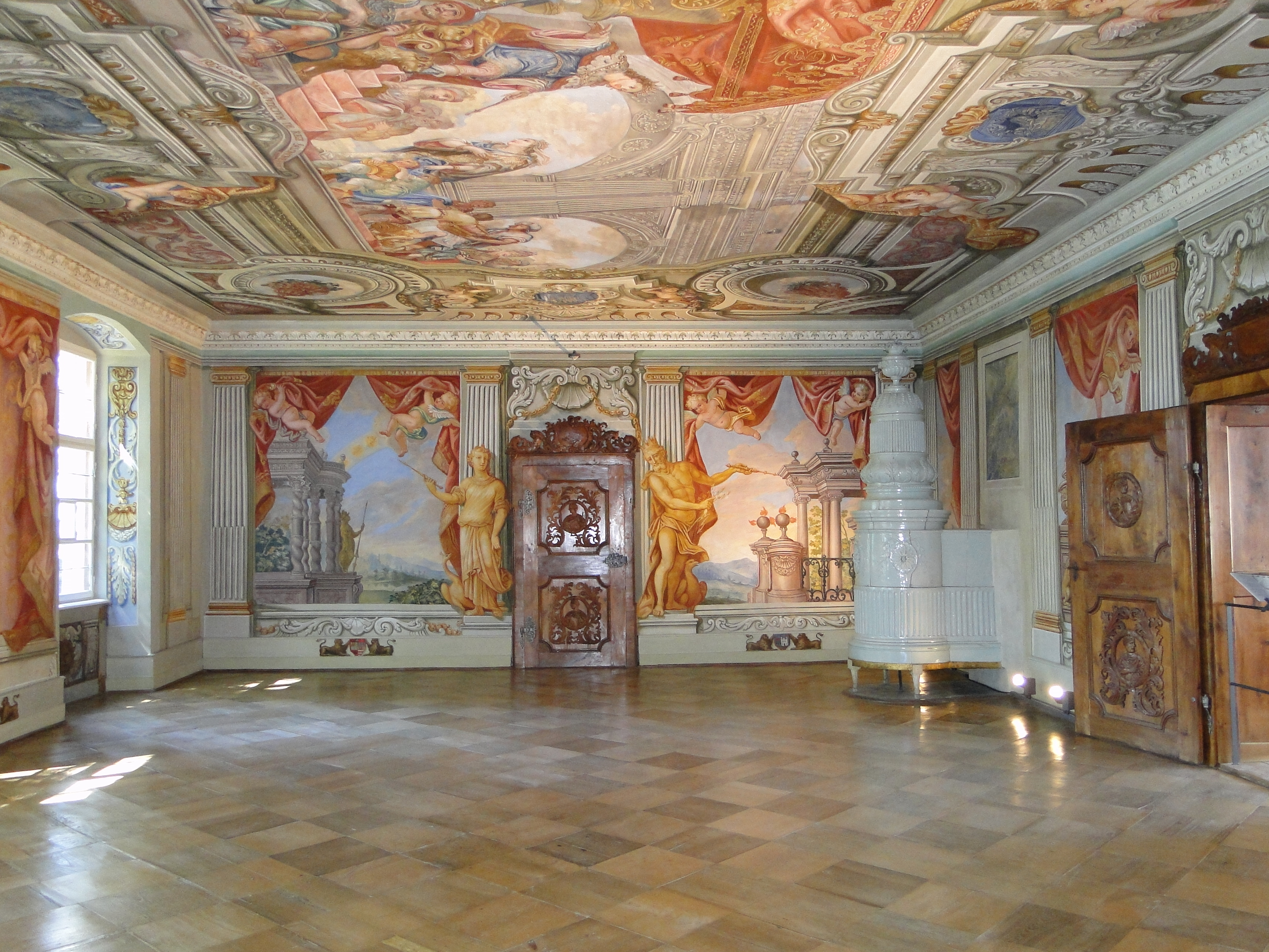 Gartensaal of the convent at Herrenchiemsee